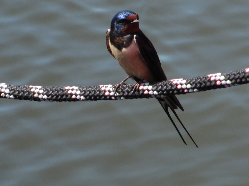 Barn Swallow at Lake Mueritz (Mecklenburg-Vorpommern, Germany)